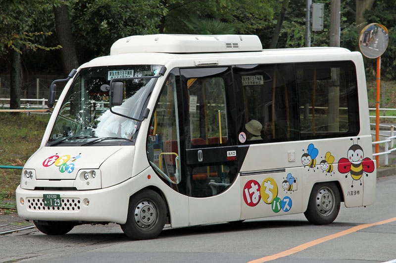 Hachioji City Comunity Bus "Hachibus" 八王子市コミュニティバス「はちバス」